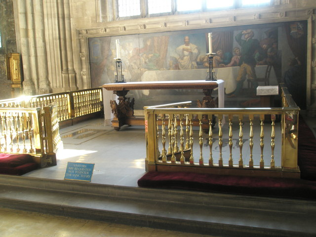 The main altar at All Hallows by the Tower, near to Bermondsey, Southwark, Great Britain.